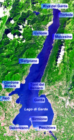 Map of Lake Garda (Lago di Garda), Italy Aerial photo source: File:Lake garda from space.jpg Town name tags added by Markus Bernet